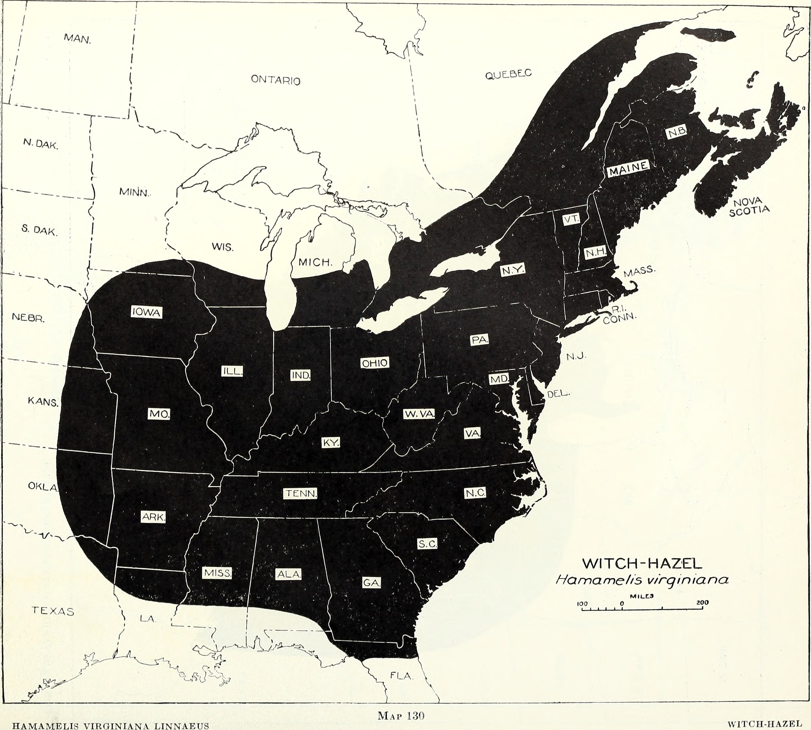 Title: The distribution of important forest trees of the United States Year: 1938 (1930s) Authors: Munns, E. N. (Edward Norfolk), 1889-1972 Subjects: Forests and forestry; Trees Publisher: Washington, D. C. : U. S. Dept. of Agriculture Text Appearing Before Image: 134 Text Appearing After Image: '